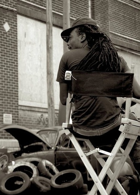 Director Gabriel Hart in a candid moment on set preparing to film